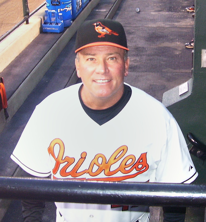 Description Cropped and color balanced version of Dave Trembley 2007.JPG DateSeptember 24, 2007SourceDave Trembley 2007.JPGAuthorKV5 • Squawk box • Fight on! 15:34, 13 December 2008 . . Killervogel5 . . 700×755 (481 KB) Cropped and color balanced version of Dave Trembley 2007.JPG